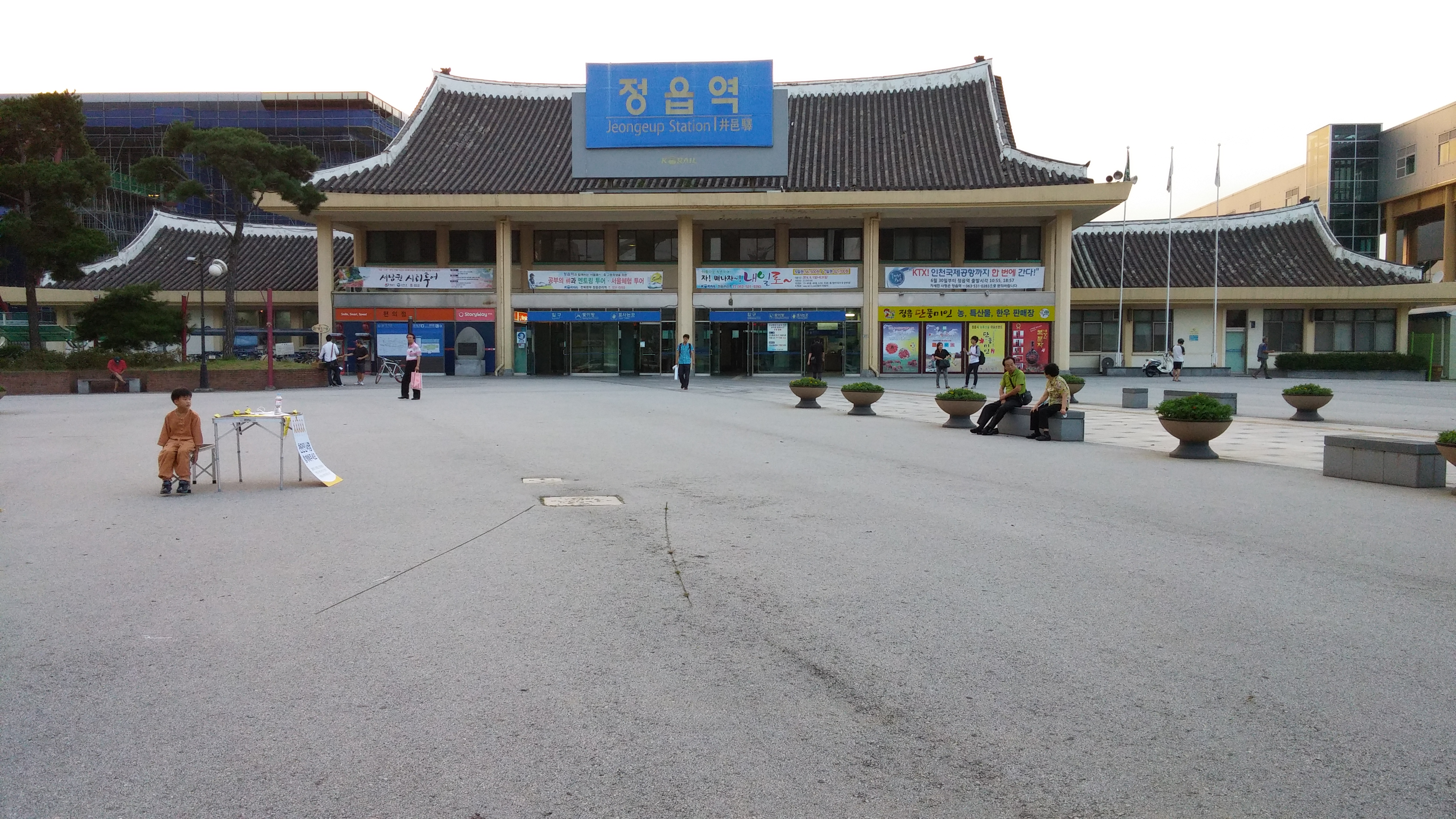 Honam Line Jeongeup Station